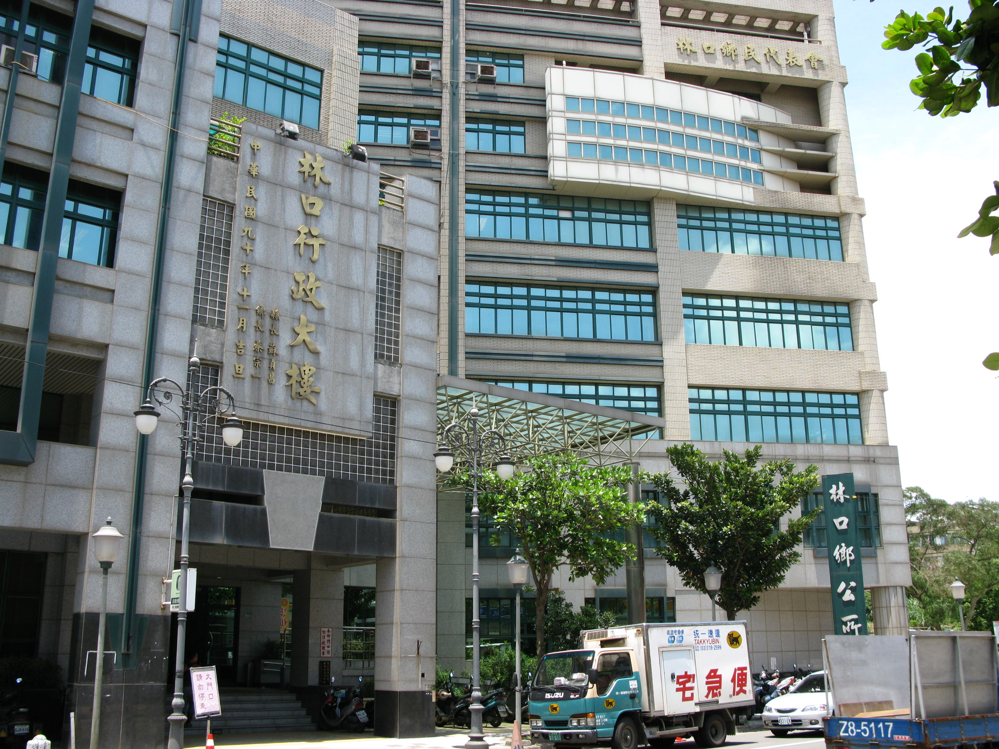 Linkou Administration Building and Linkou Township Council Building, Linkou Township, Taipei County.